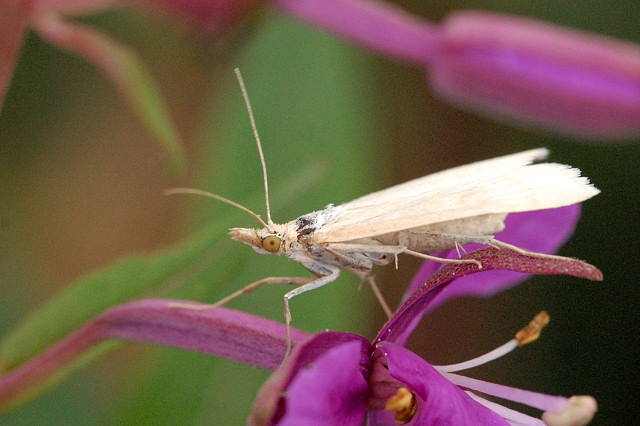 Picture taken in Commanster, Belgian High Ardennes . Species: Sitochroa verticalis